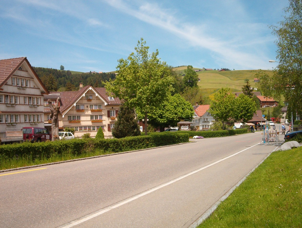 In the village of Schönengrund (Swiss canton of Appenzell Ausserrhoden)